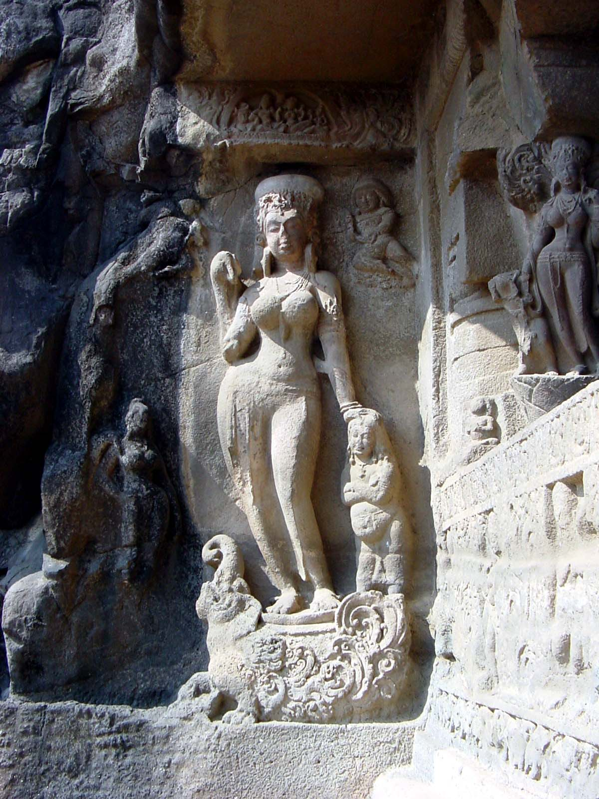 River Ganges. Cave 21, Ellora The goddess Ganga, personification of the river Ganges, is identified by the makara on which she stands. Her left arm rests upon a gana.